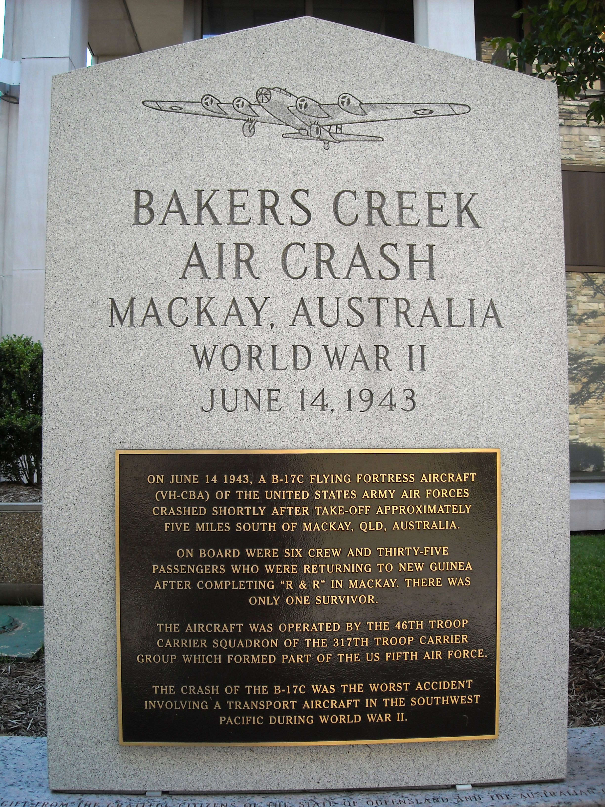 Bakers Creek Air Crash memorial located at the Embassy of Australia in Washington, D.C.